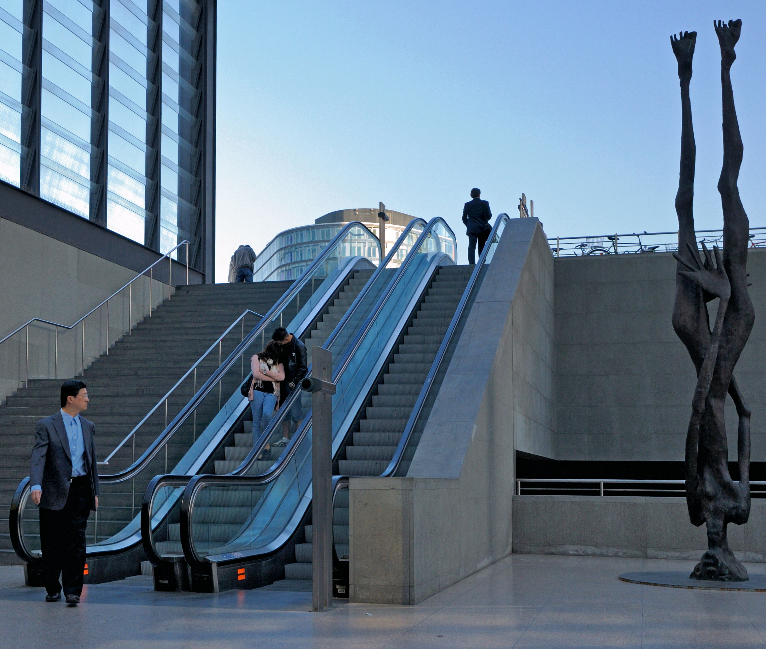 Monument to Giordano Bruno by Alexander Polzin at Potsdamer Platz in Berlin. Germany